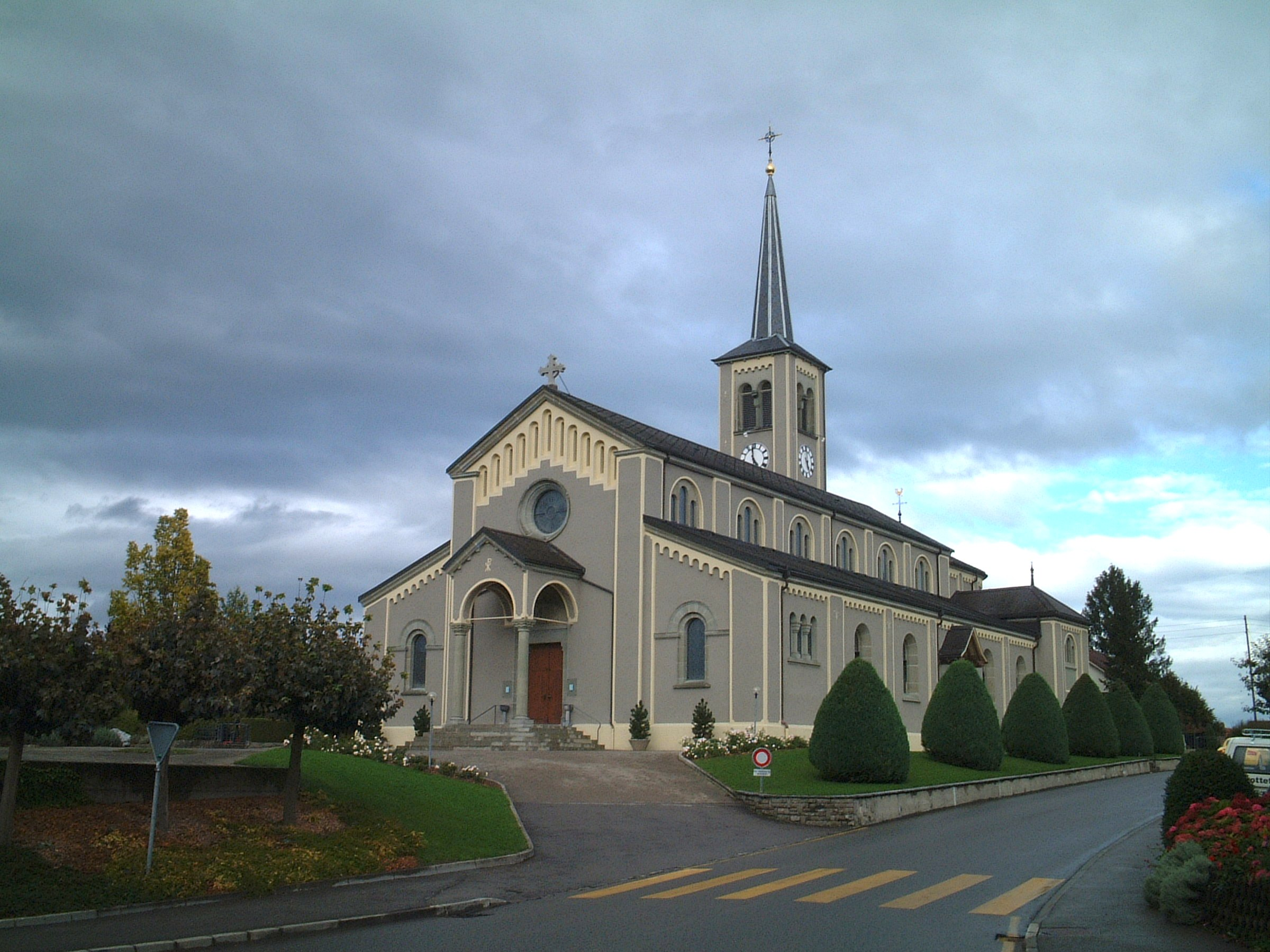 Schmitten, a village in the canton of Fribourg, Switzerland. Pfarrkirche Sankt Joseph